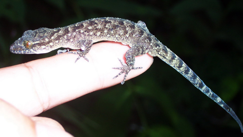 Javan bent-toed gecko Cyrtodactylus marmoratus from Darmaga, Bogor, West Java, Indonesia